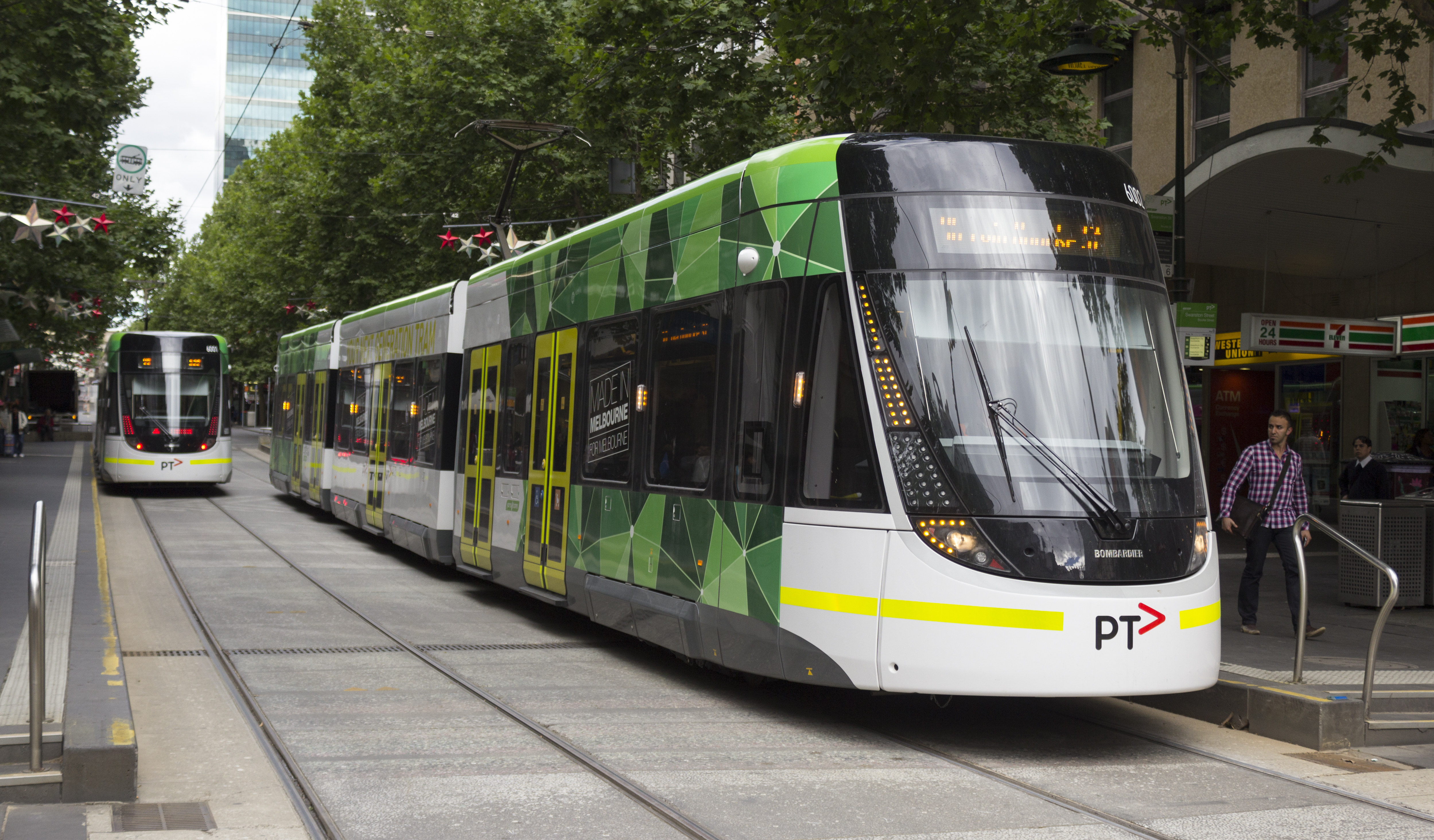 E 6001 and E 6002 (Melbourne trams) in Bourke St on route 96, 2013.